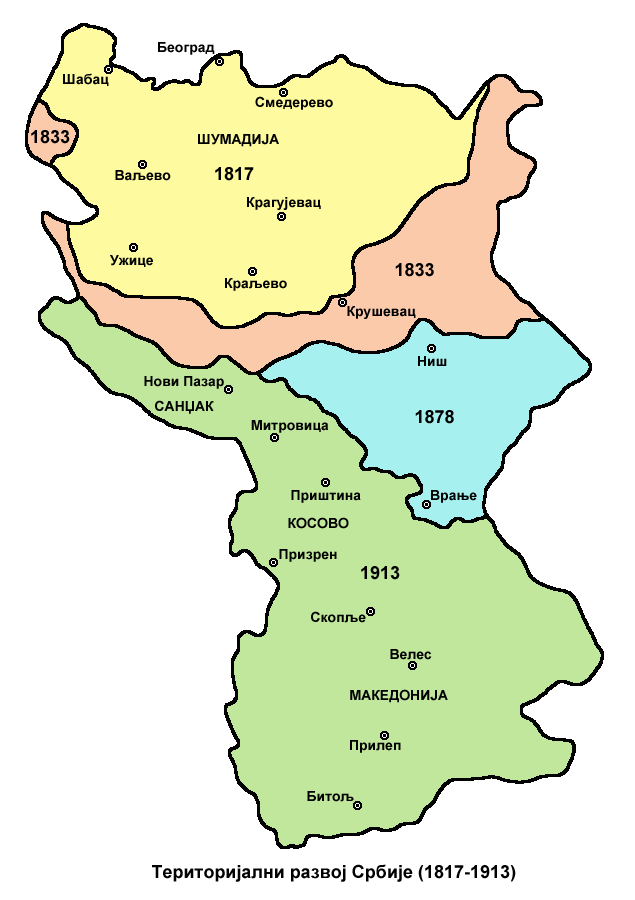 Territorial development of the Principality of Serbia and Kingdom of Serbia (1817-1913).